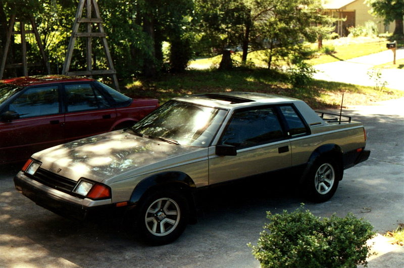 A 1983 Celica GTS, the first year that Toyota included that variant (though it didn't bear a 'GTS' emblem until the following year).